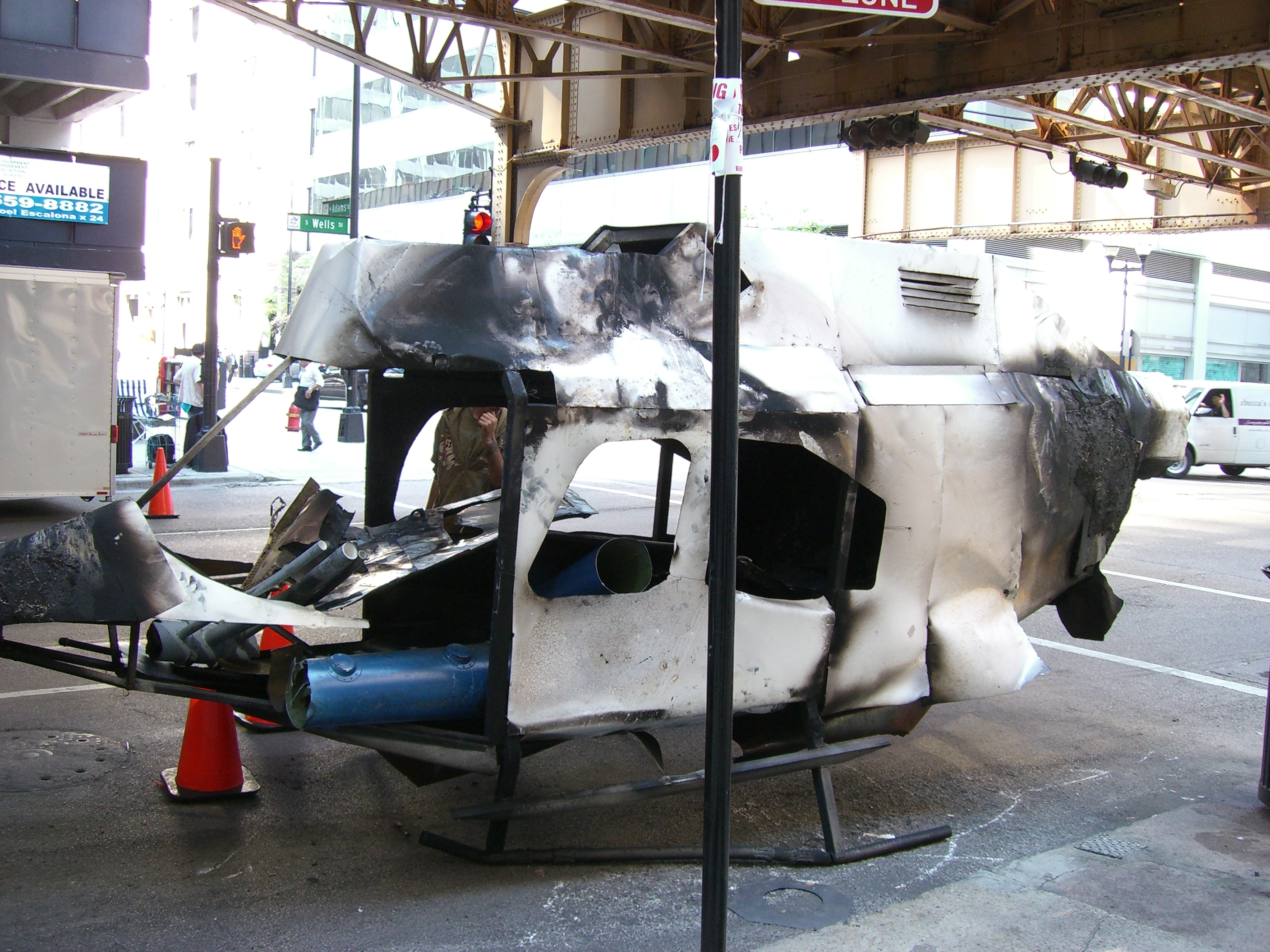 They were filming the Batman Begins sequel around Chicago. Apparently a helicopter catches fire at some point in the movie.